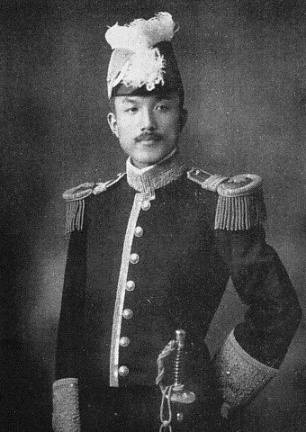 Takamasa Hachijo